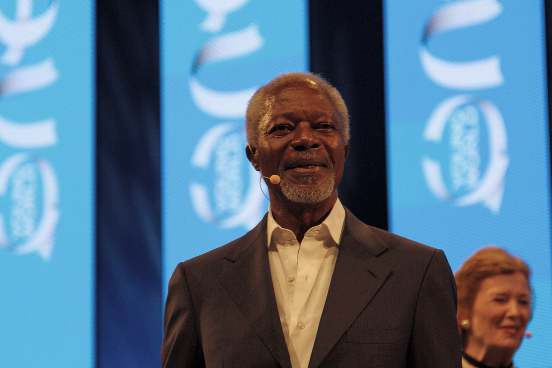 Kofi Annan at One Young World Conference in Dublin Ireland